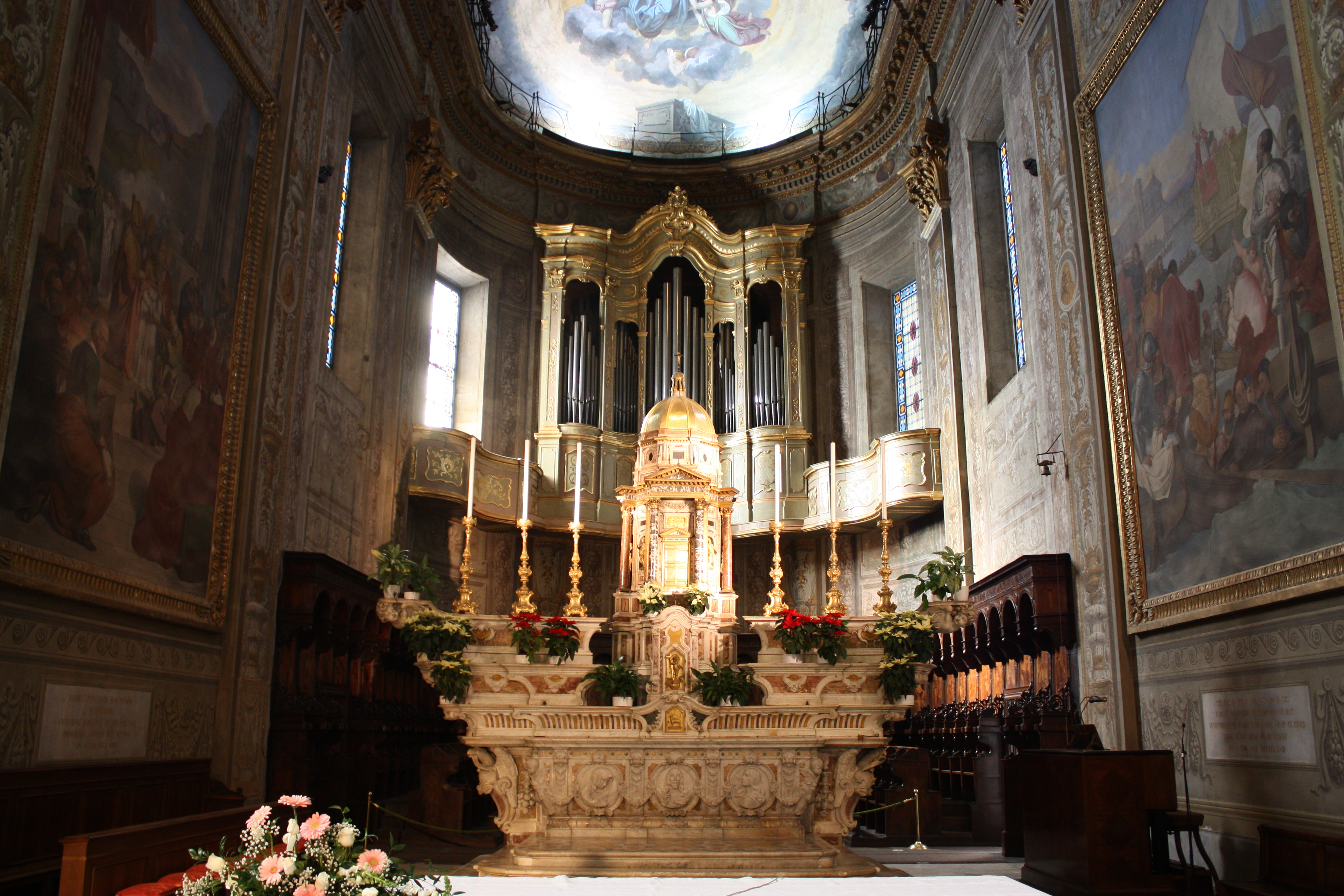 Altar in Savona Cathedral in Savona, Italy.